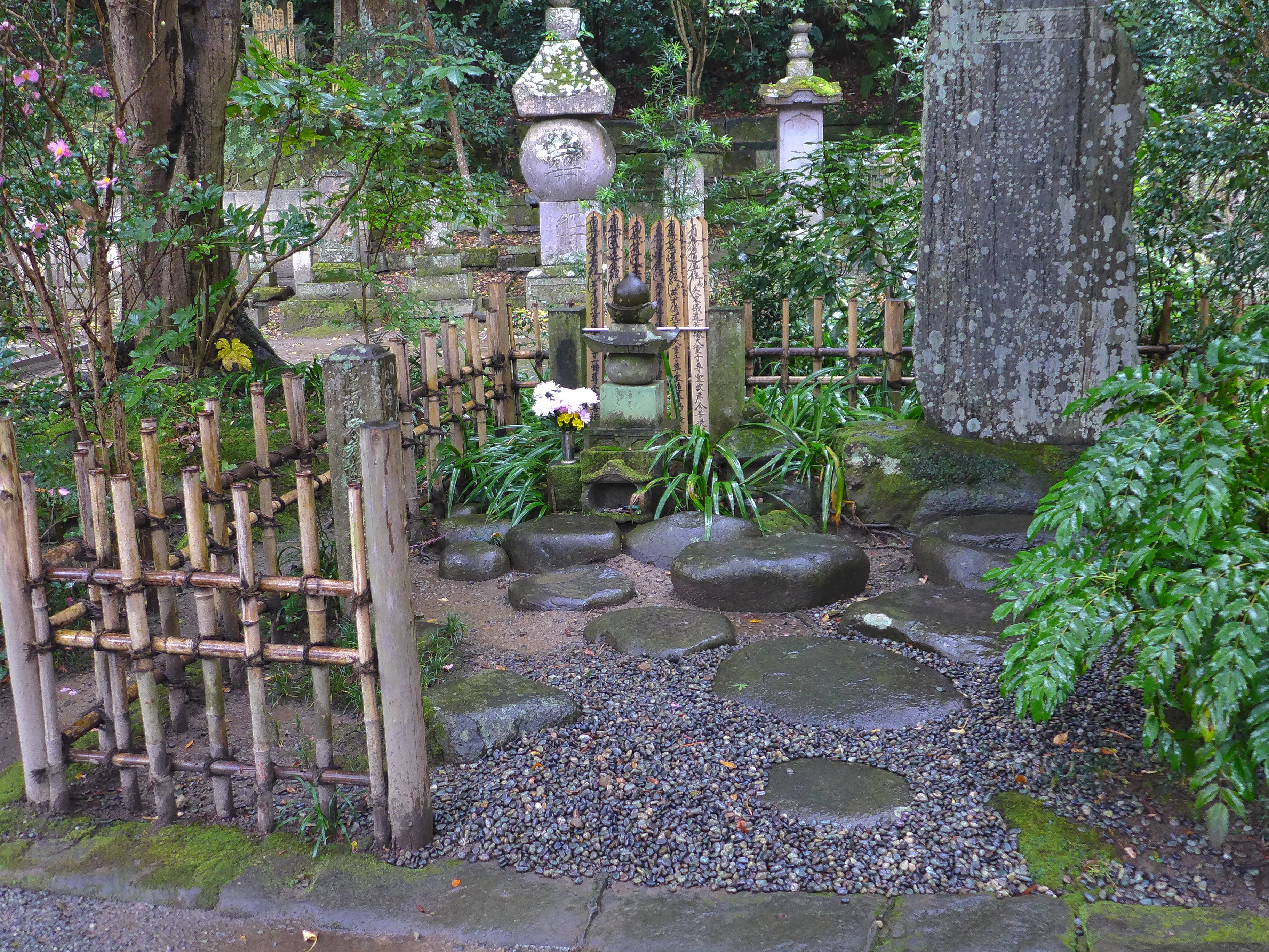 The tomb of Minamoto no Ichiman, son of shogun Minamoto no Yoriie, at Myōhon-ji, Kamakura